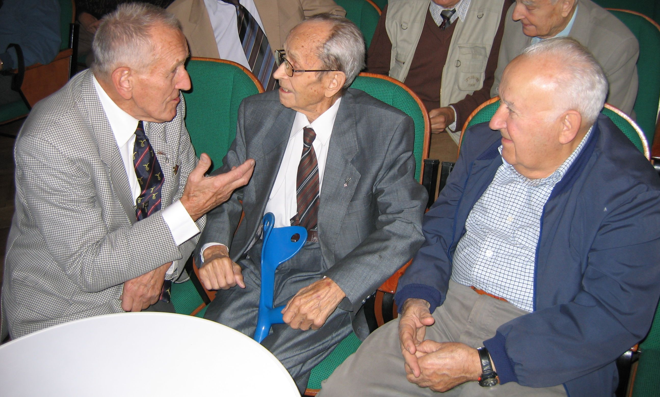 Polish, retired test pilots. From left: Ryszard Witkowski, Bronisław Żurakowski, Stanisław Wielgus